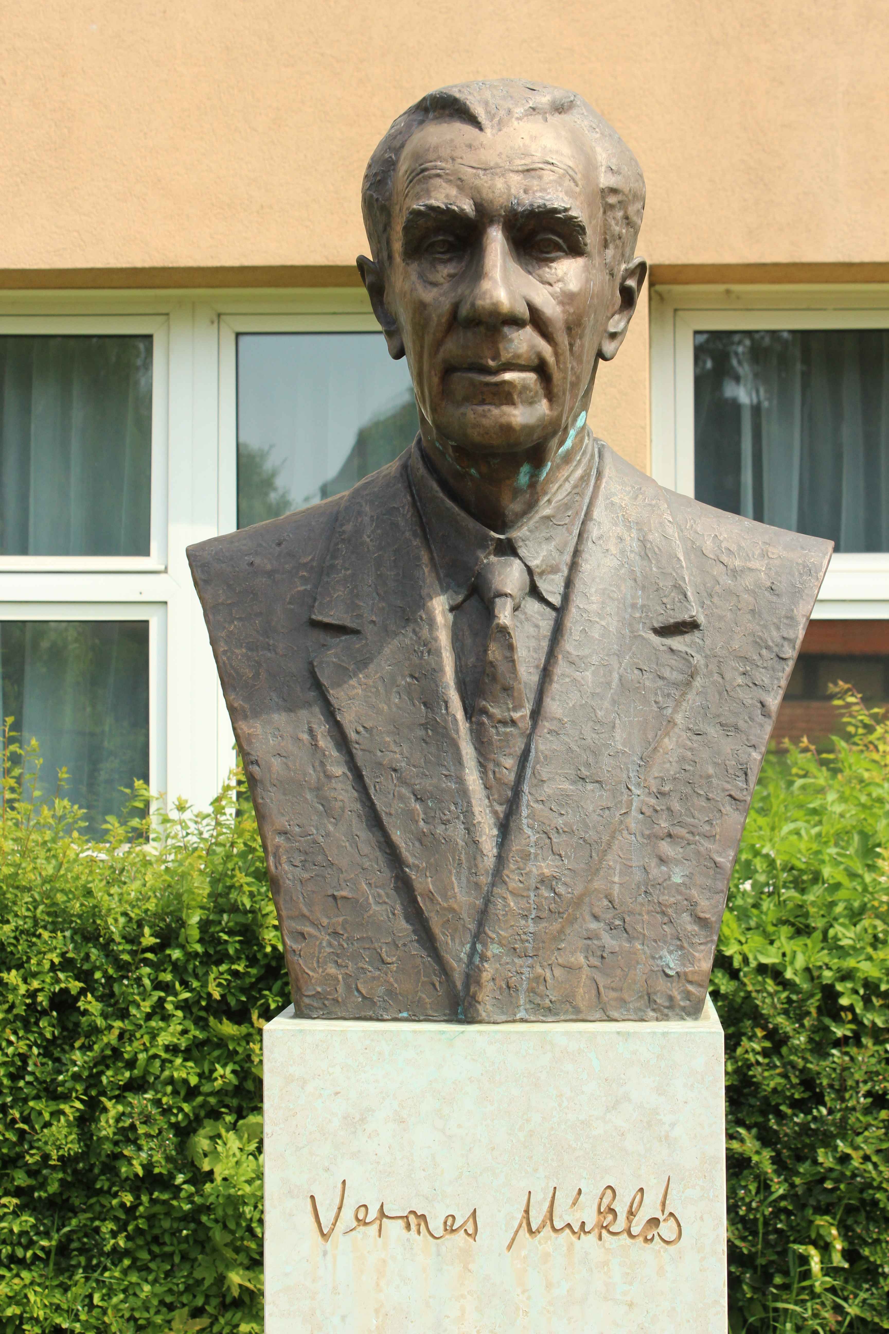 Bust of Miklós Vermes (Sopron, Hungary). Sculptor: Tamás Soltra E., 2005.